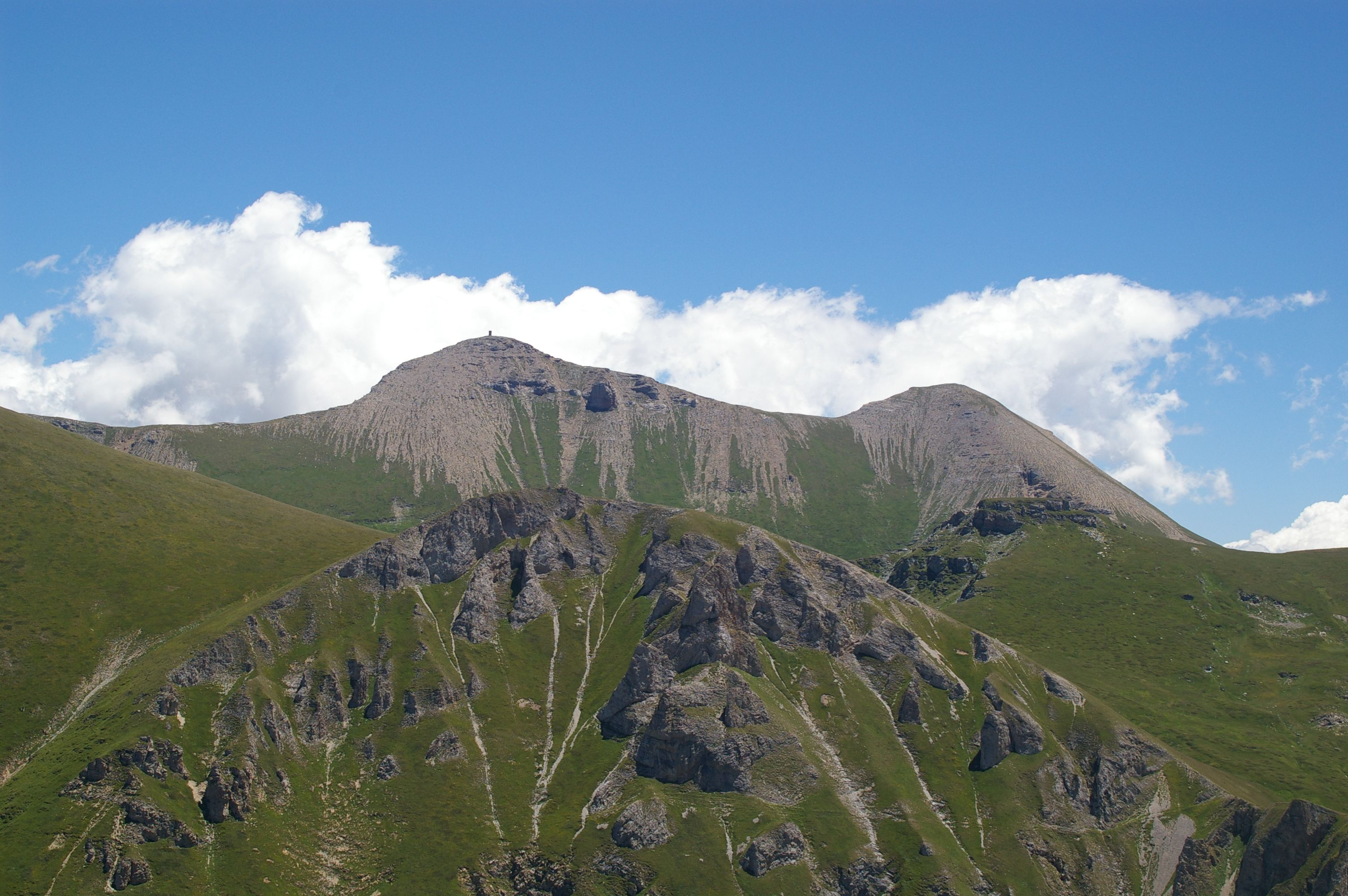 Titov Vrv (2,747 m/9,012 ft) and Mal Turčin (2,707 m/8,881 ft) in Šar Planina